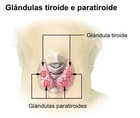 Thyroid/parathyroid glands labelled in Galician